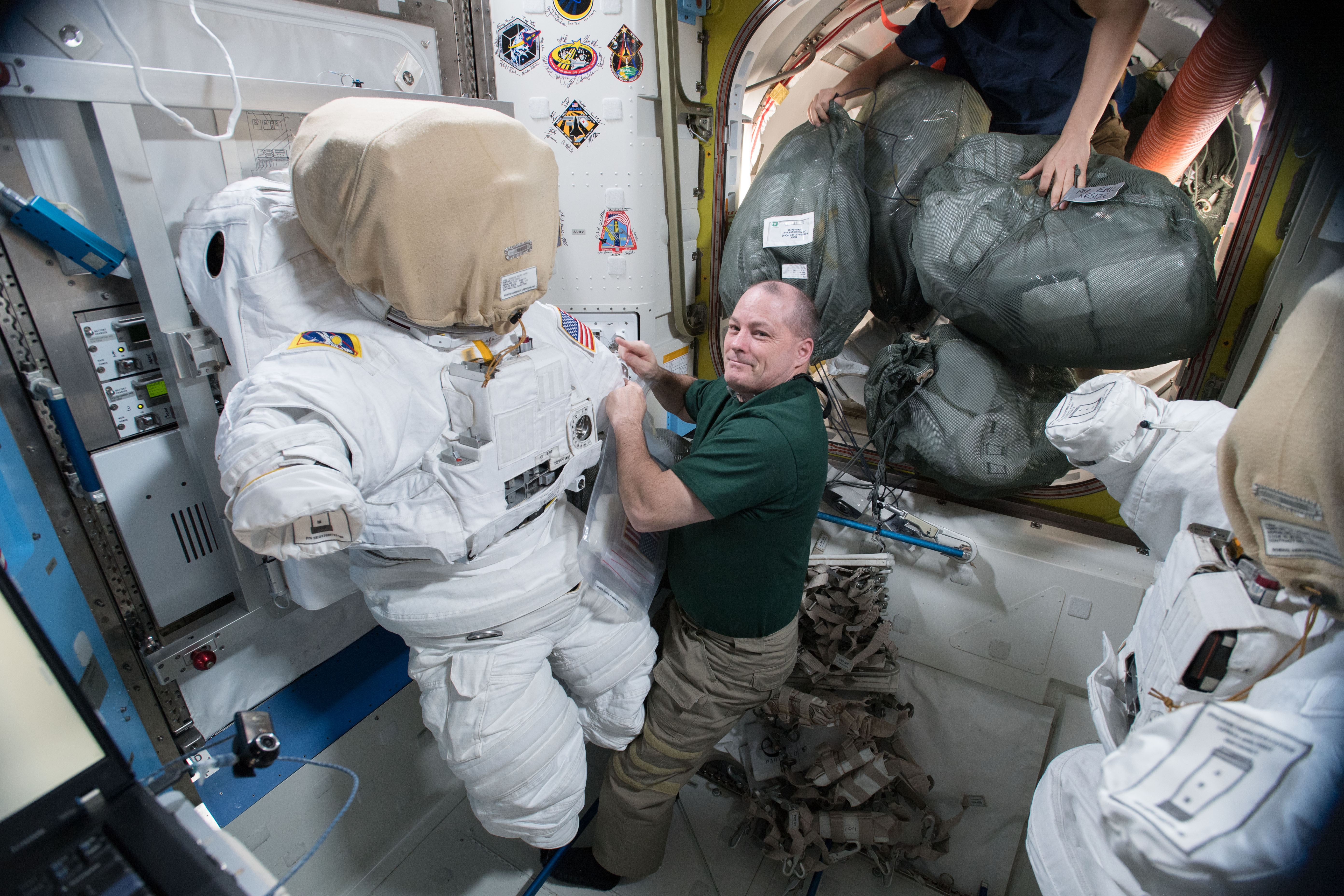 Astronaut Scott Tingle works on a U.S. spacesuit inside the Quest airlock at the beginning of January 2018 before a pair of robotics maintenance spacewalks were scheduled to begin. In the background (half out of frame inside the "Crew Lock") you can see the Japanese astronaut Norishige Kanai.